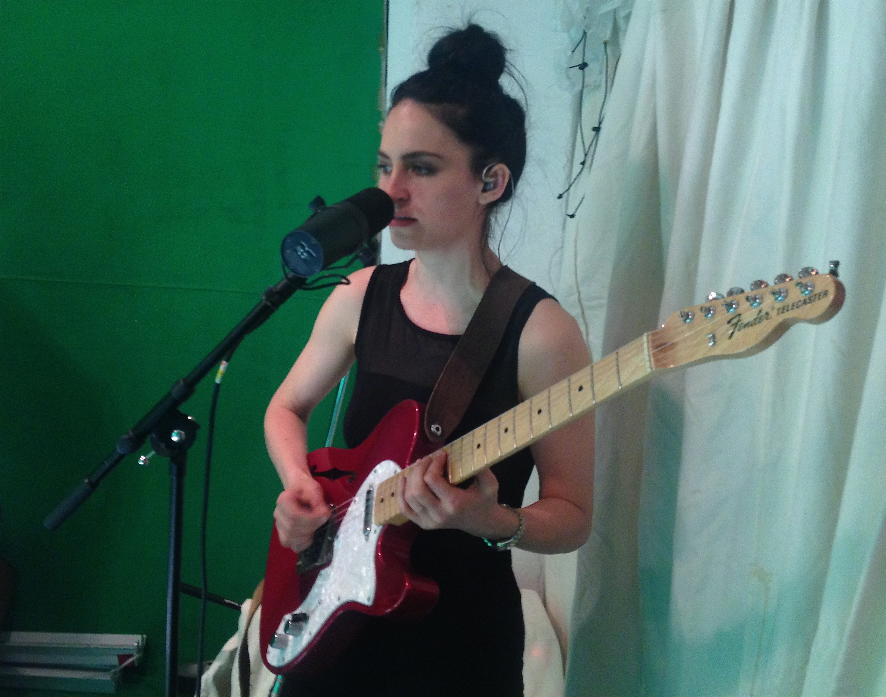 For this very special episode of Room 205, director Paul Stec and audio engineer J. Clark guide us on a woozy shoegaze through the gauzy, interstitial dreamworld of Blouse. Unbound from the corporeal constraints of Room 205's 15 x 20ft landscape, the resulting collaboration offers a near-perfect flux of ethereal pop, live performance and poetic imagination. BIO Blouse started in the summer of 2010, after Los Angeles native Charlie Hilton met Patrick Adams in art school. Based out of a warehouse in Portland, OR, they began spending nights recording with Jacob Portrait (also of UMO). After posting two demo tracks to Bandcamp, the group released the 7” single "Into Black" on Captured Tracks in March 2011, soon followed by "Shadow" on Sub Pop. Their self-titled debut LP was released by Captured Tracks in November 2011. Drummer Paul Roper and keyboardist Misty Marie currently round out the live band as Blouse embarks on its first whirlwind tours of Europe and the US.